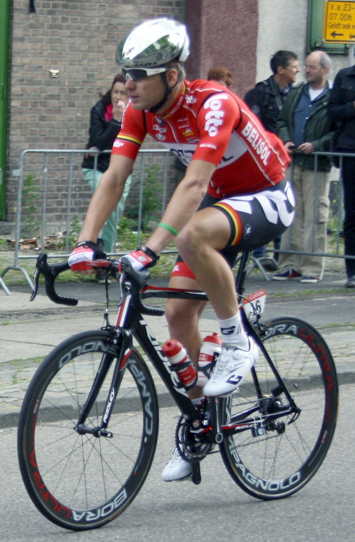 Jurgen Roelandts at the start of the World Ports Classic 2014 in Rotterdam